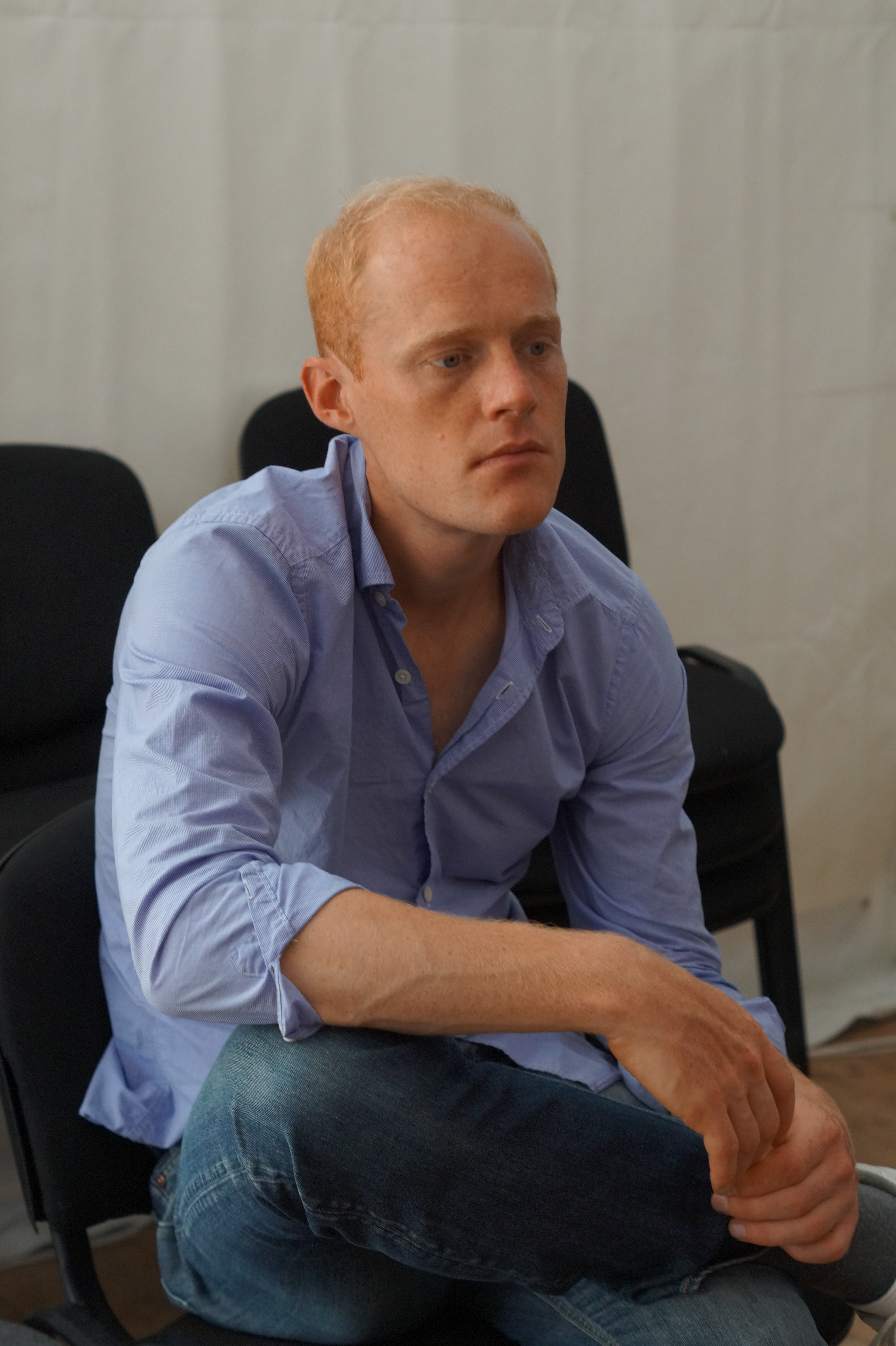 Pieter-Jan De Pue